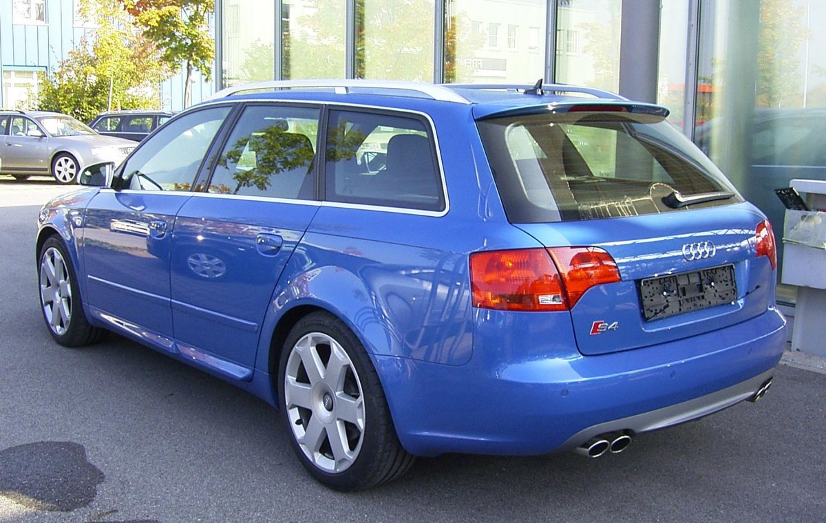 Audi B7 S4 Avant in Sprint Blue with Avus-III alloy wheels